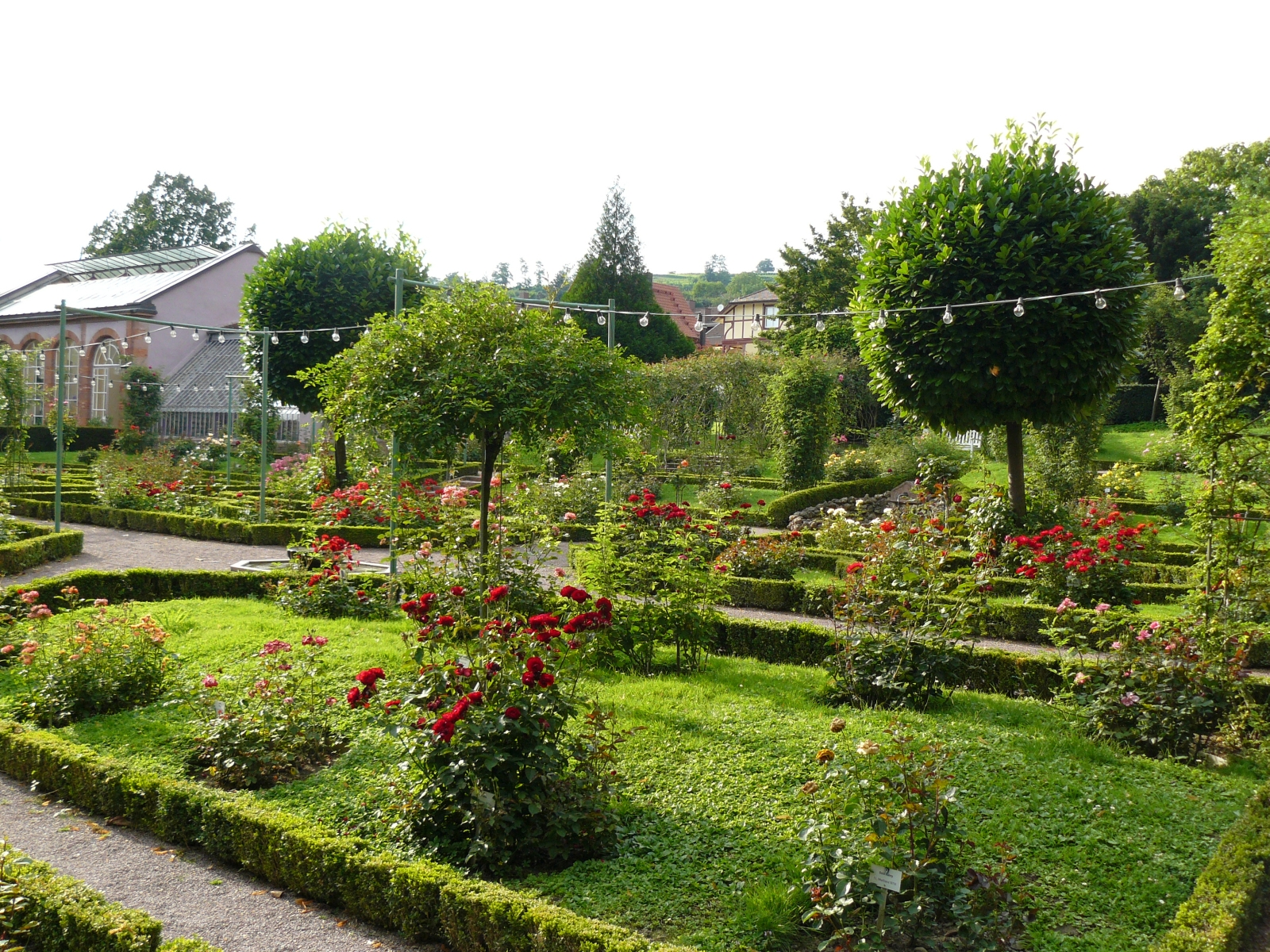 Rose garden in the city garden of Lahr, Black Forest, Germany